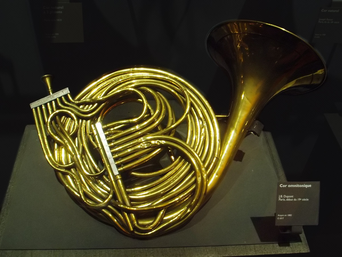 Omnitonic Horn - J.B. Dupont, Paris, early XIXth century - Paris, Musée de la musique (reworked by smial)